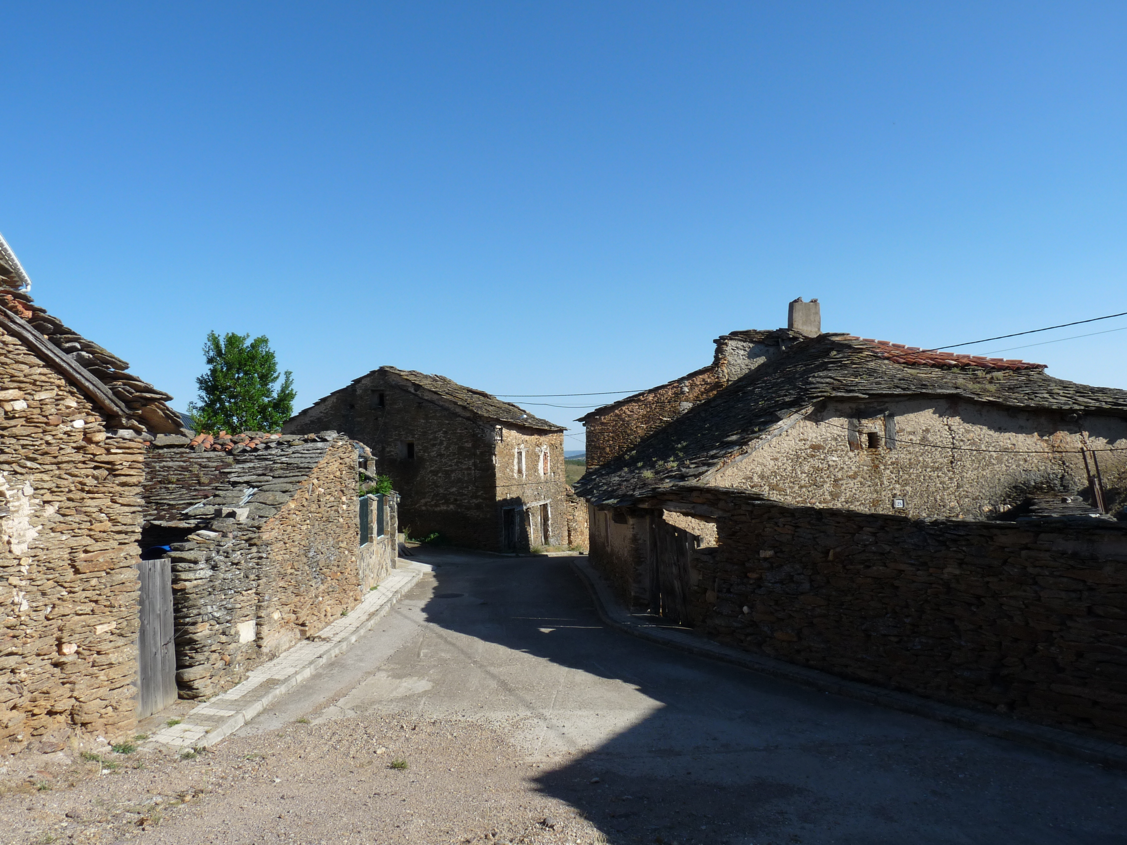 Vernacular architecture in Hiendelaencina, Guadalajara, Castile-La Mancha, Spain.